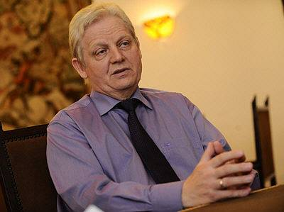 István Tarlós, Mayor of Budapest (2010– )